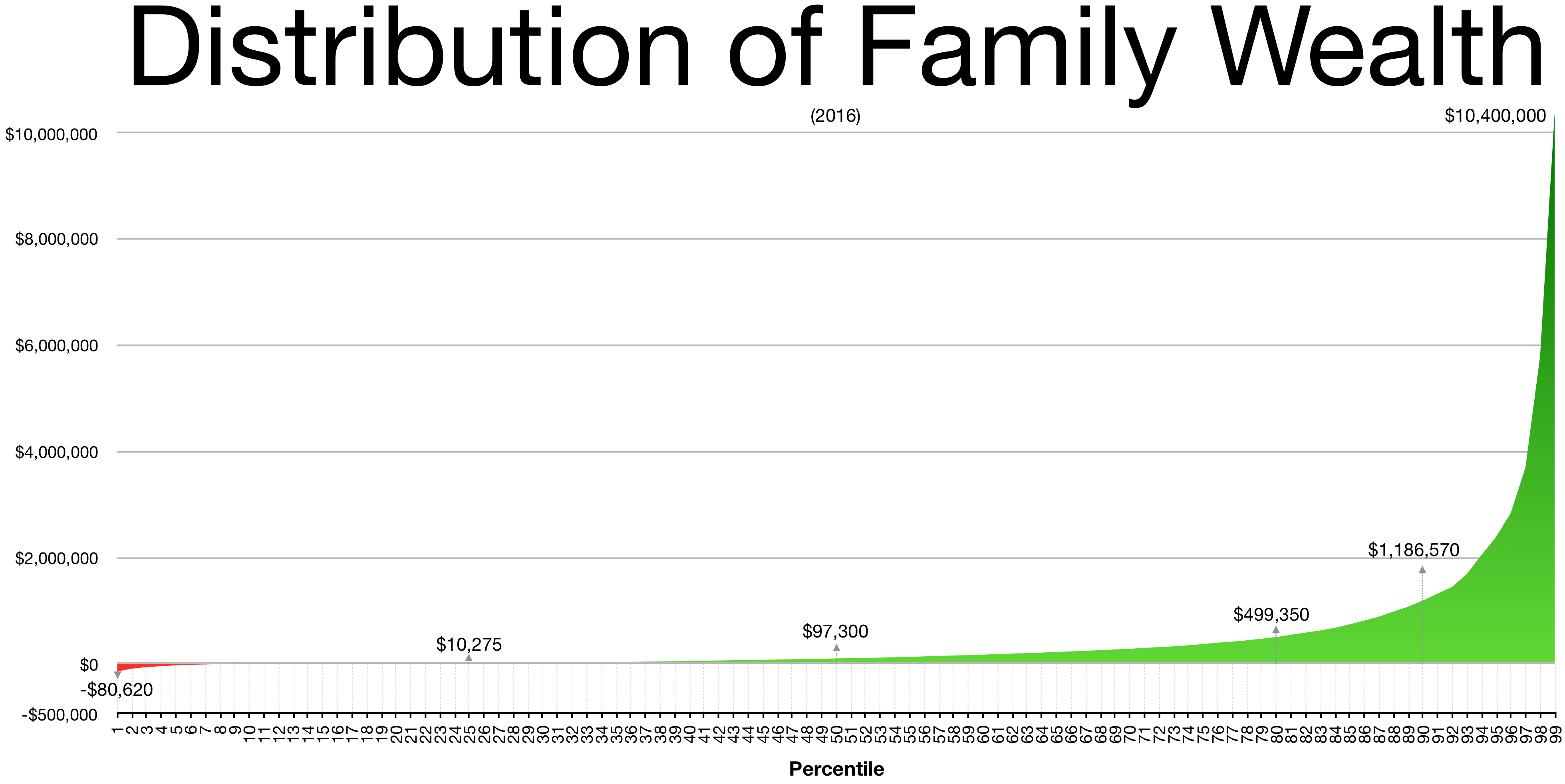 Wealth distribution by percentile